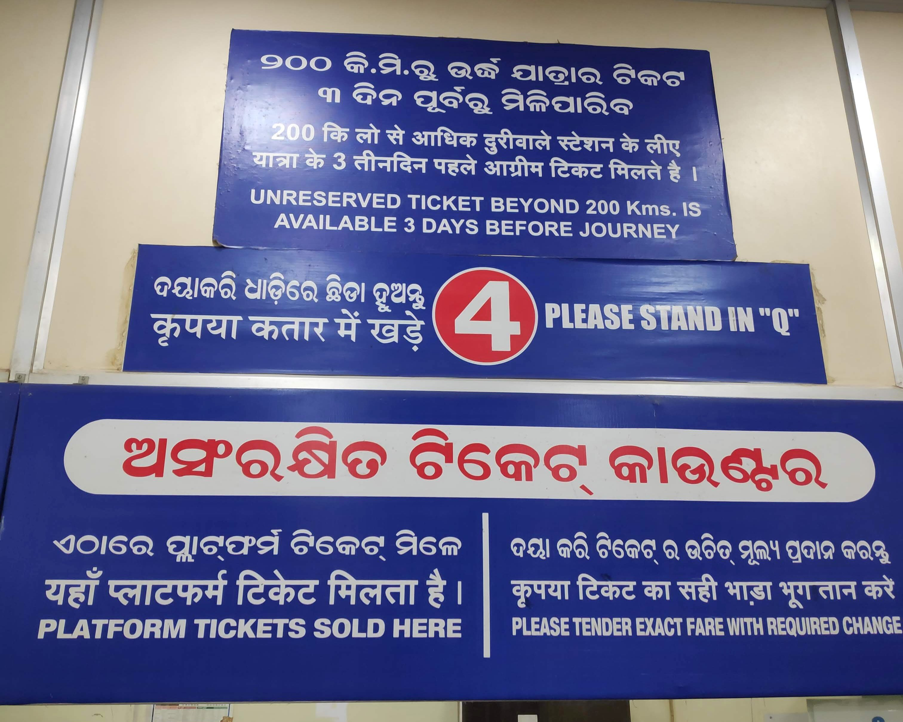 Trilingual Signboard at Bhubaneswar Railway Station Ticket Counter